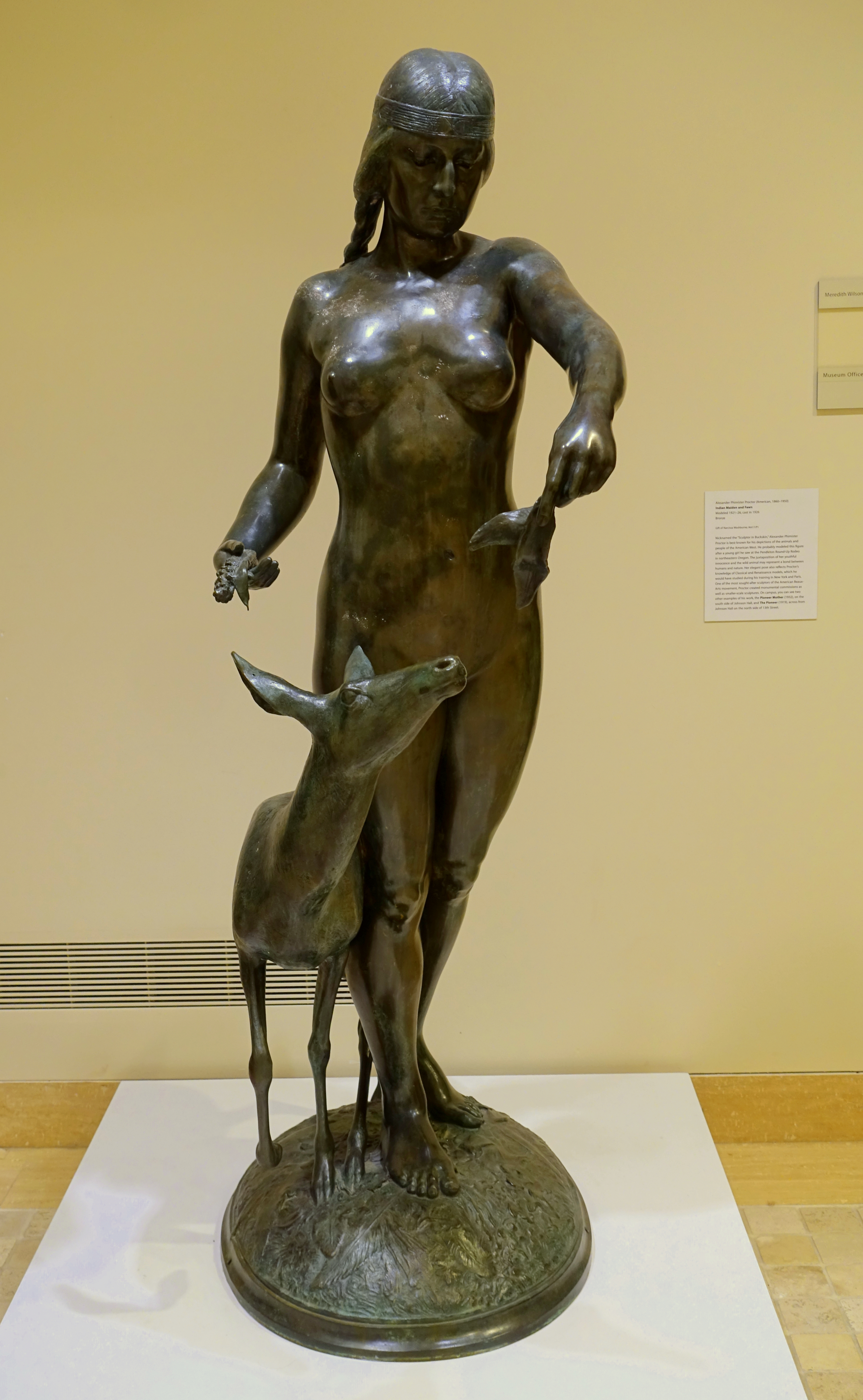 Indian Maiden and Fawn, by Alexander Phimister Proctor, modeled 1921-1926, cast 1926, bronze - Jordan Schnitzer Museum of Art, University of Oregon - Eugene, Oregon, USA. This sculpture is in the public domain because it was published and copyrighted in the United States between 1923 and 1963, with its copyright not renewed.